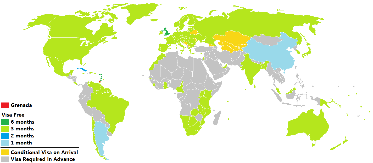 Visa policy of Grenada Grenada Visa-free - 6 months Visa-free - 3 months Visa-free - 2 months Visa-free - 1 month Conditional visa on arrival Visa required in advance